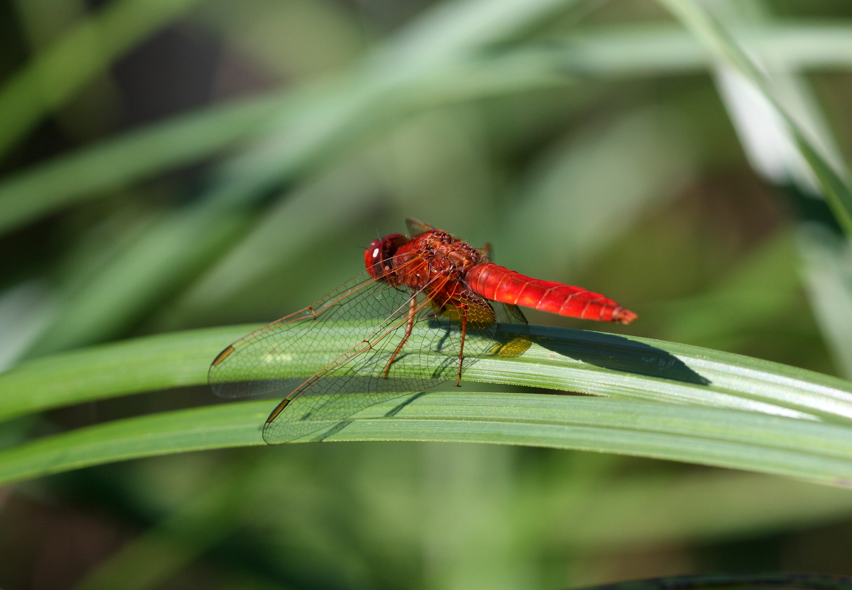 A Scarlet Dragonfly male resting on a bank of one of the Opekarna ponds near Vrhnika, Slovenia.